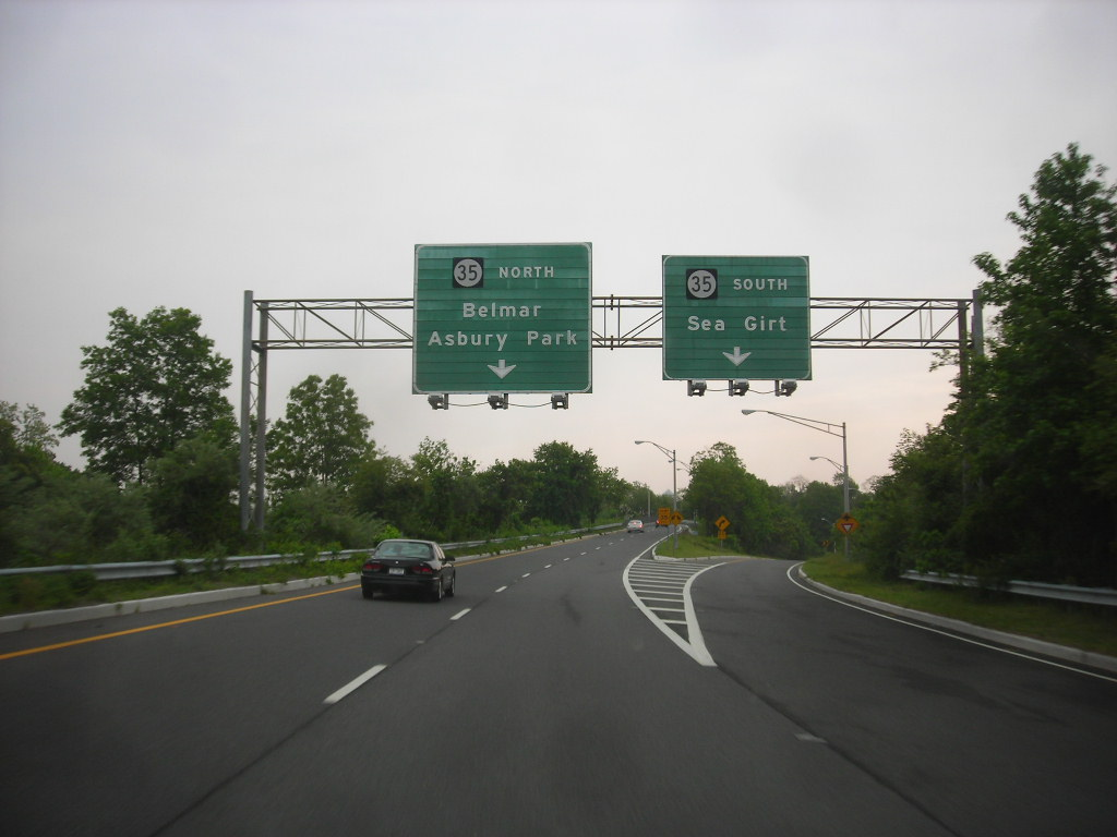 New Jersey State Route 138 approaching its eastern terminus at New Jersey State Route 35 in Belmar.